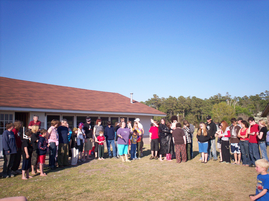 Gathering of the Families Learning Together members (a group of homeschooling families) in Foxlair, NC, USA.